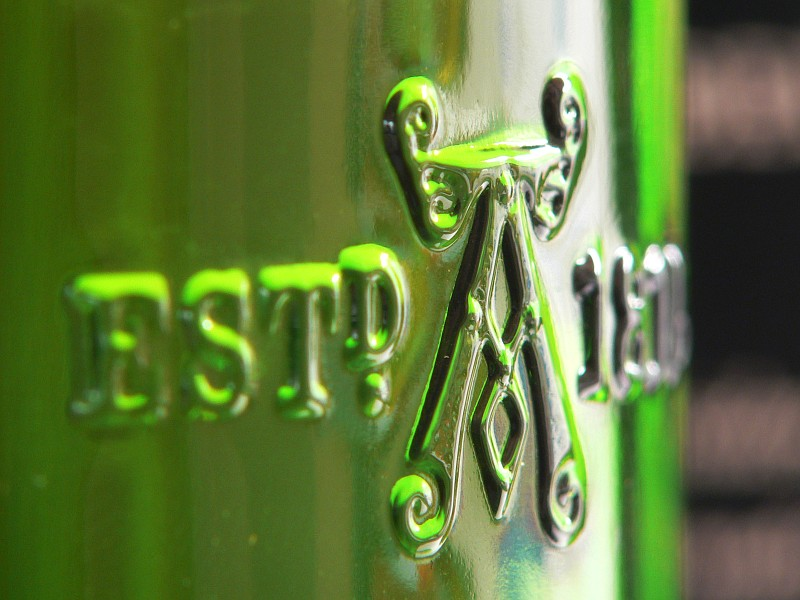 Detail on a bottle of Ardbeg whisky.